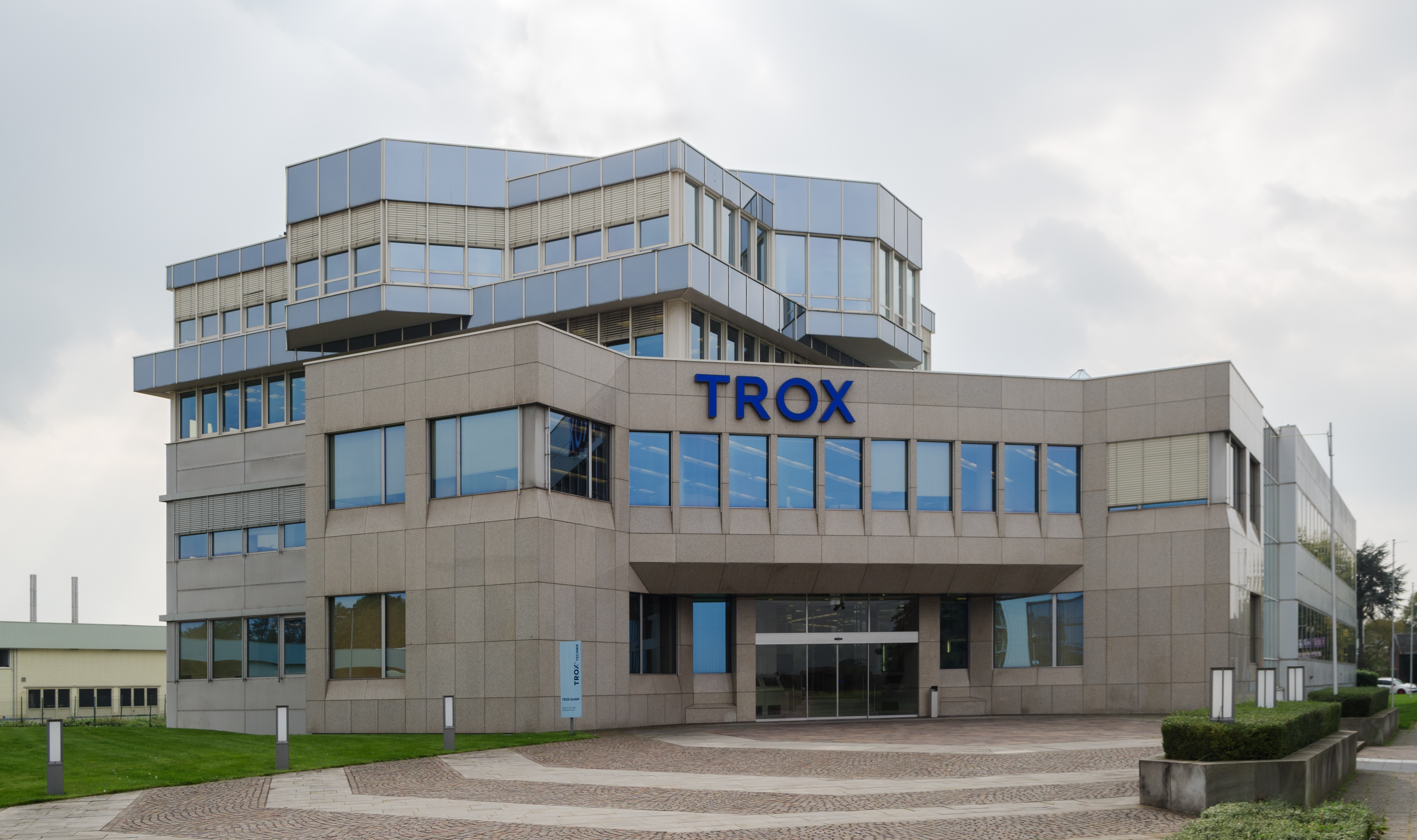 Neukirchen-Vluyn (North Rhine-Westphalia, Germany) – district Vluyn – headquarters of TROX GmbH